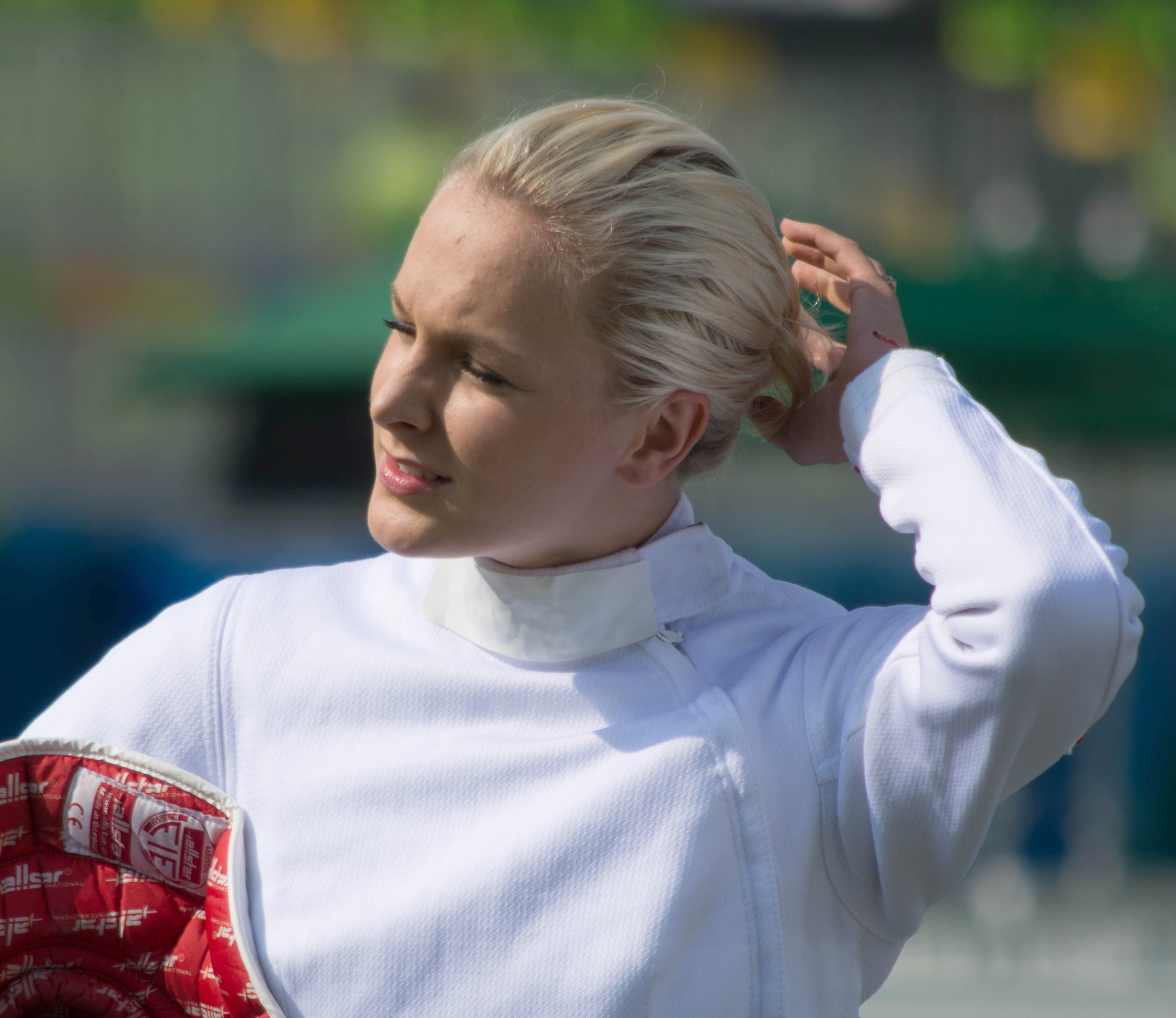 Extra fencing competition at the Modern Pentathlon